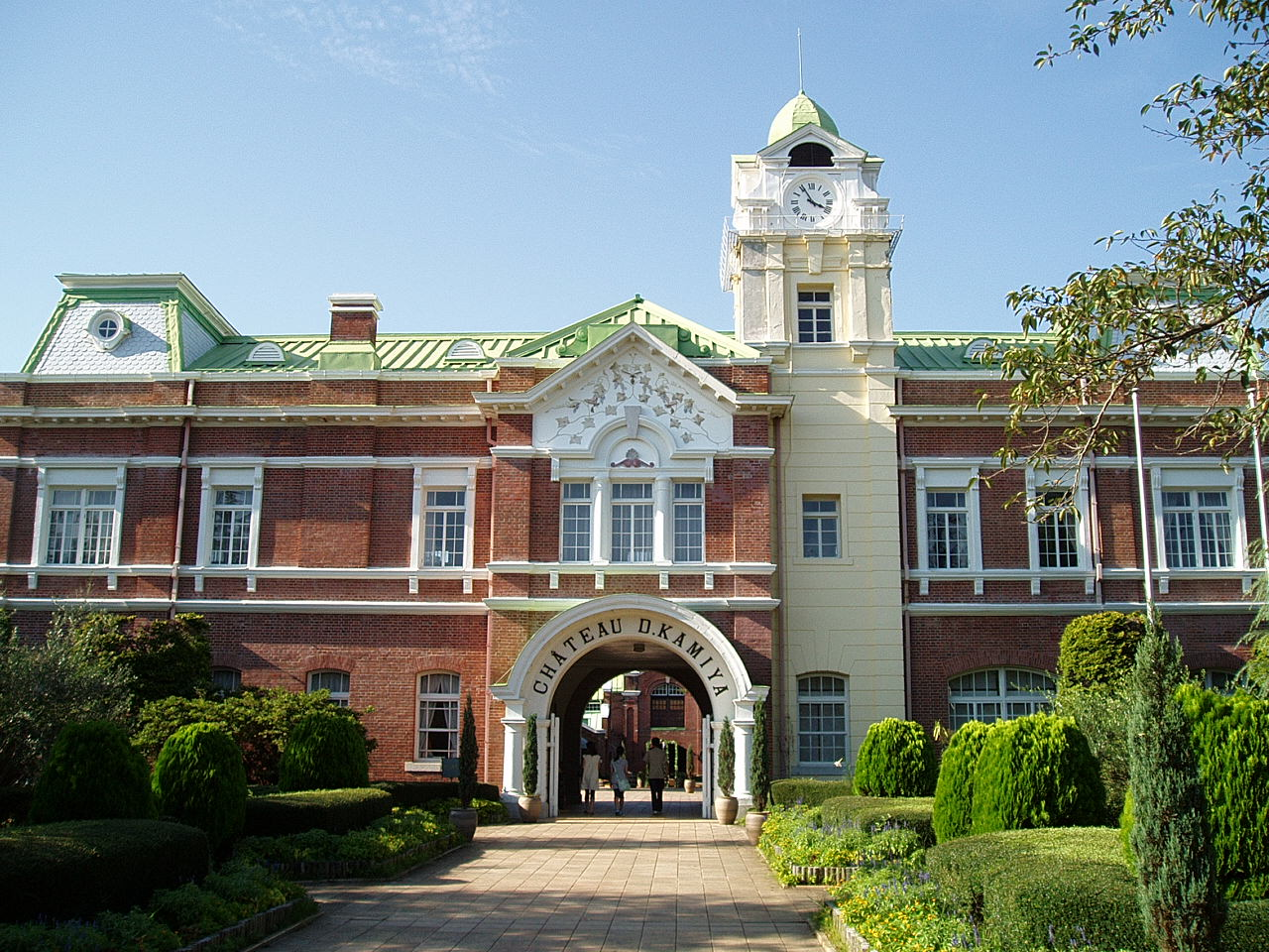 The Main Building of the Chateau Kamiya (Ushiku Chateau), a composition of restaurants, a memorial museum and experimental vineyards.Built in 1903 by Denbei Kamiya as the administration building of his winery.Located in Ushiku, Ibaraki, Japan.